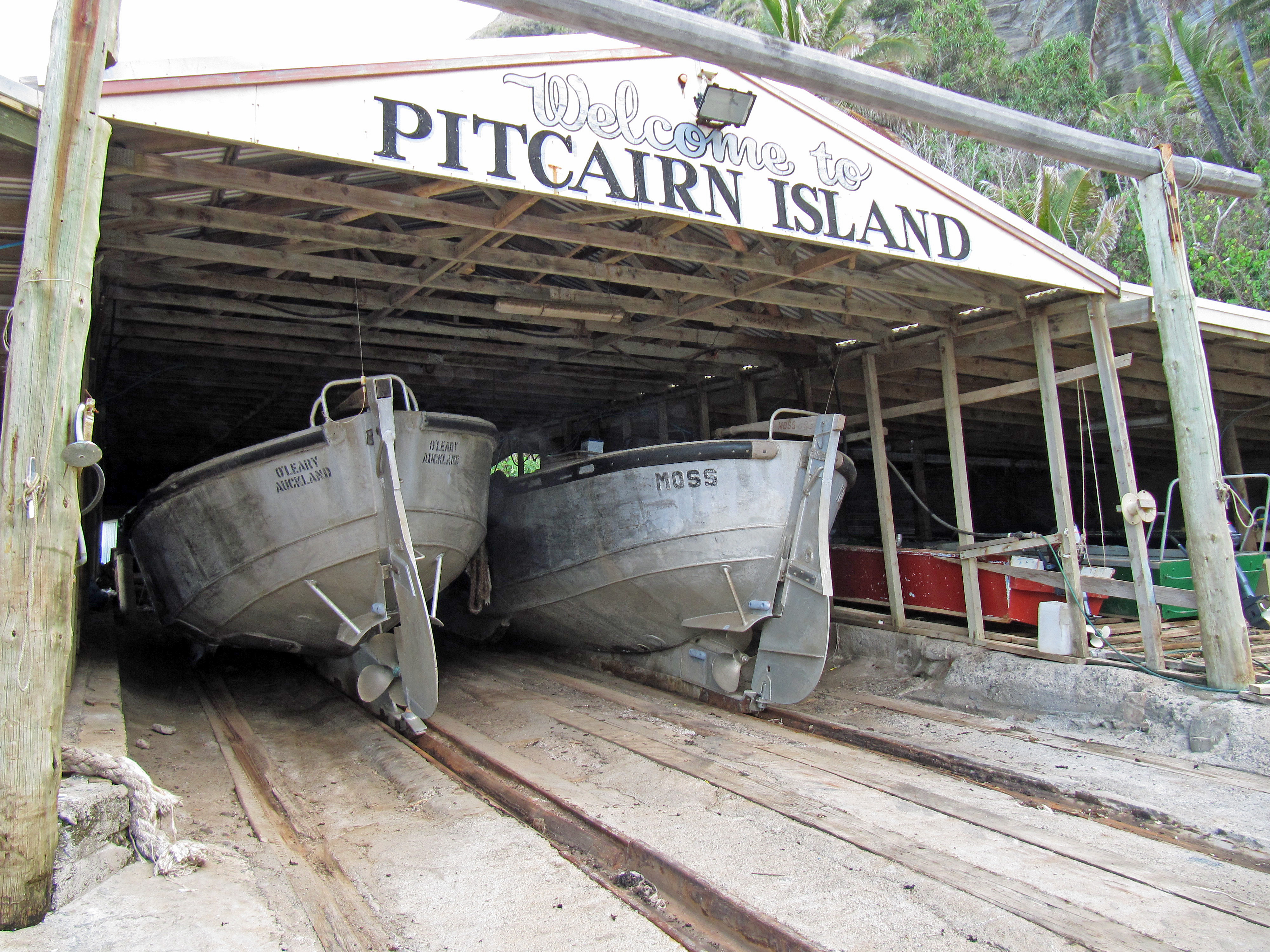 Pitcairn Longboats